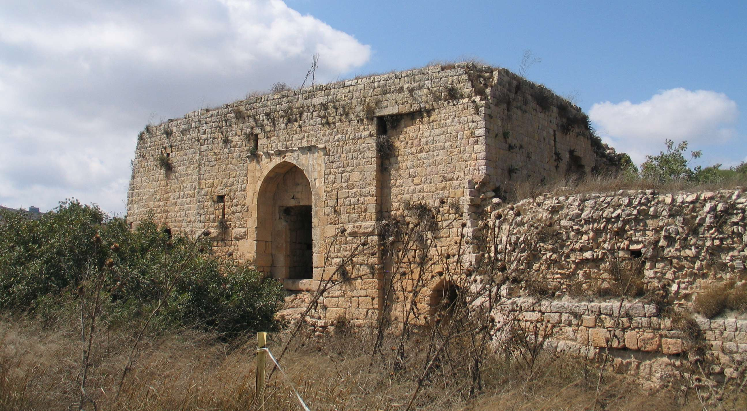 Chateau Neuf (Hunin fortress), near moshav Margaliot, Israel.